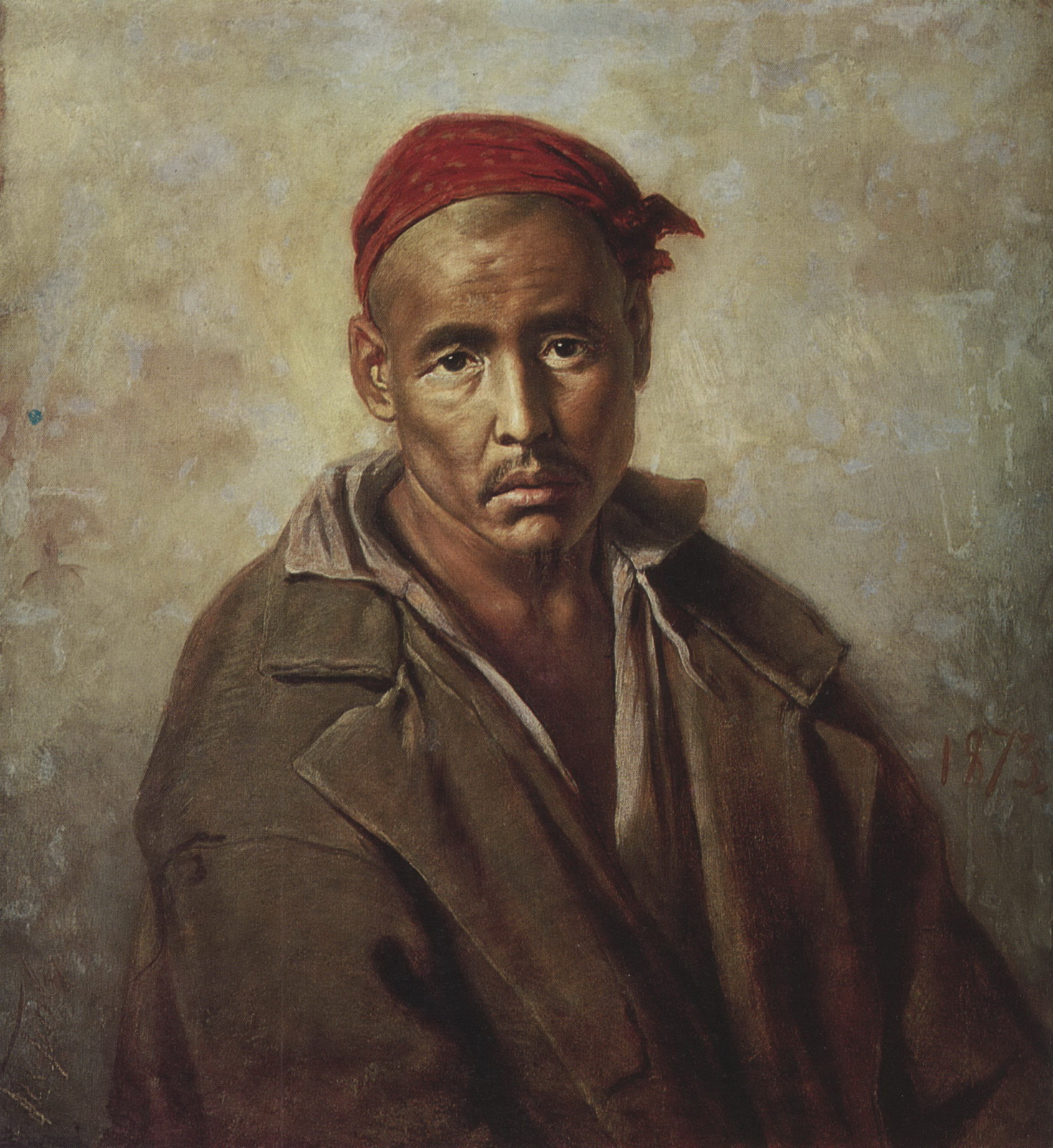 Head of a Kirgiz convict